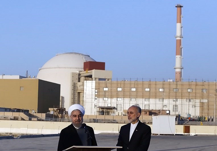 Iranian President Hassan Rouhani and Head of the Atomic Energy Organization of Iran (AEOI) Ali Akbar Salehi in Bushehr Nuclear Plant.